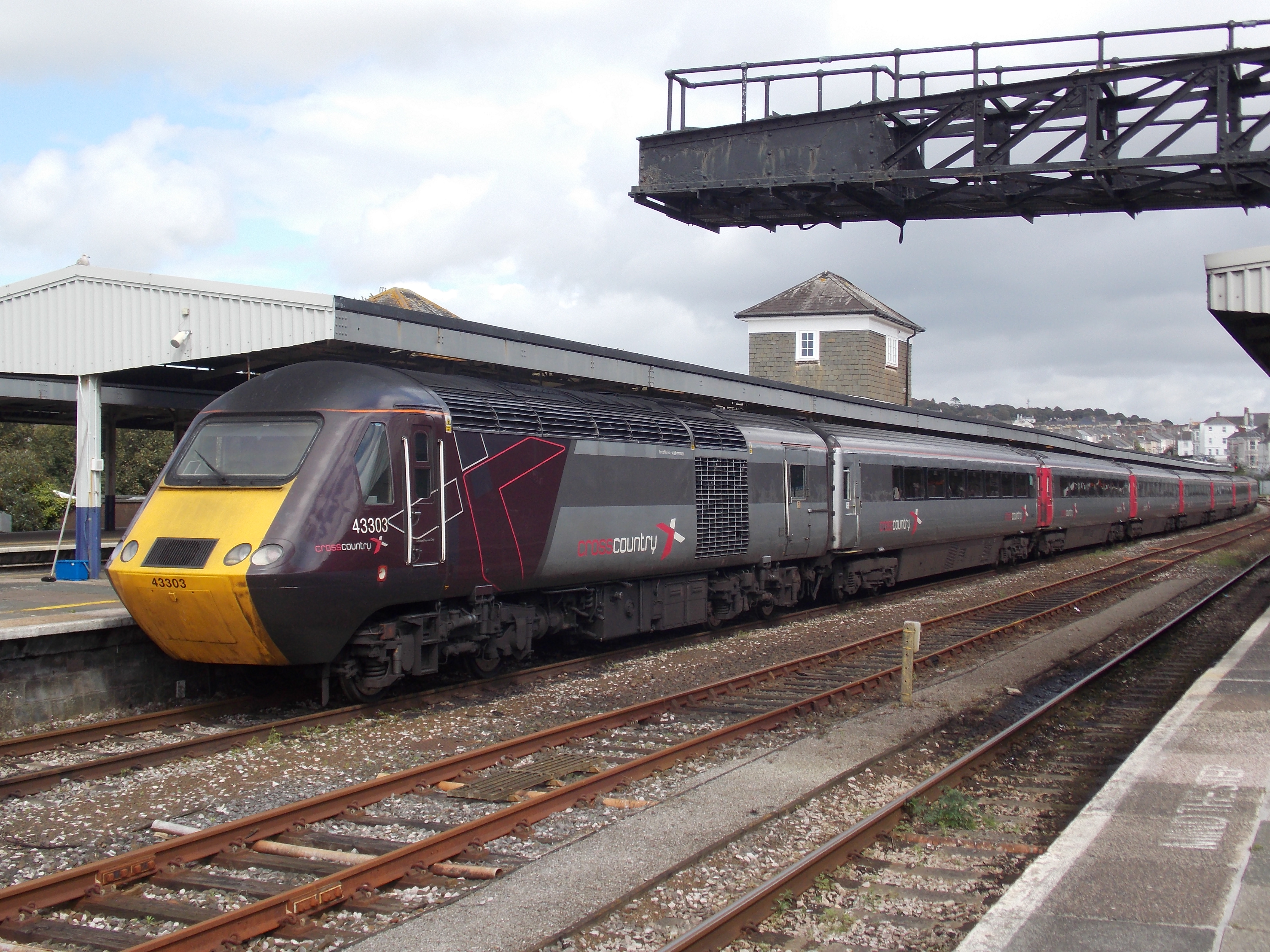 XC HST at Plymouth - 11th September 2017